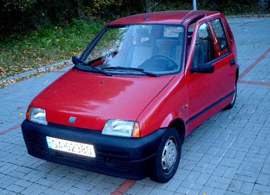 1995 Fiat Cinquecento Young (704 cc engine).